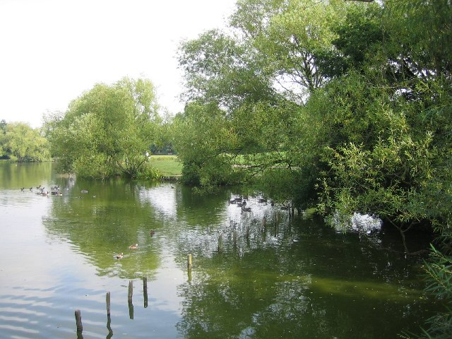 Lake Meadows, Billericay. Lake Meadows is a delightful park in the centre of Billericay. The lake, shown in this picture, hosts many types of birds. The park is always well maintained by the local council. This picture was taken on a warm sunny September day.